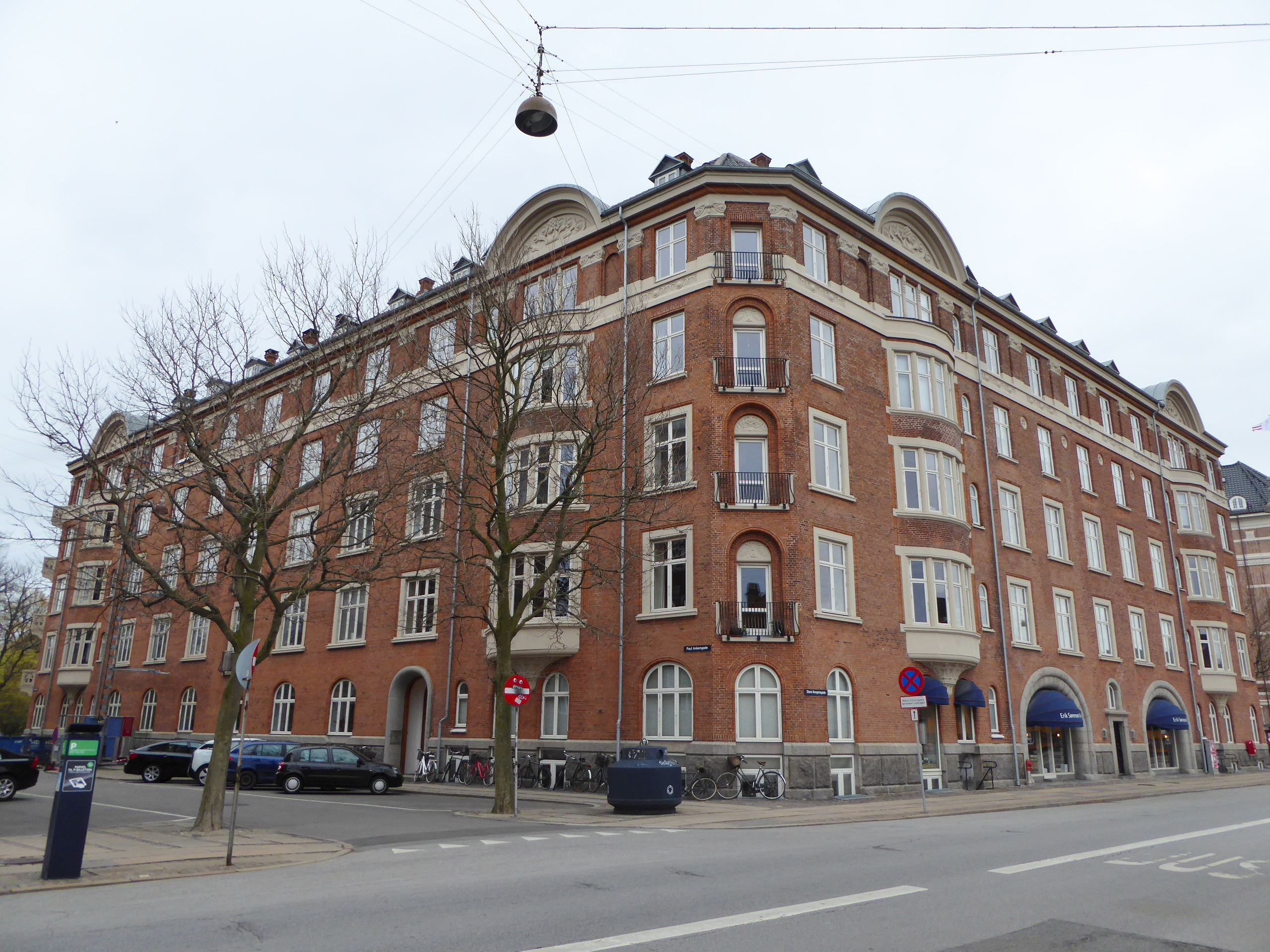 Building at the corner of Poul Ankers Gade and Store Kongensgade in Indre By in Copenhagen.